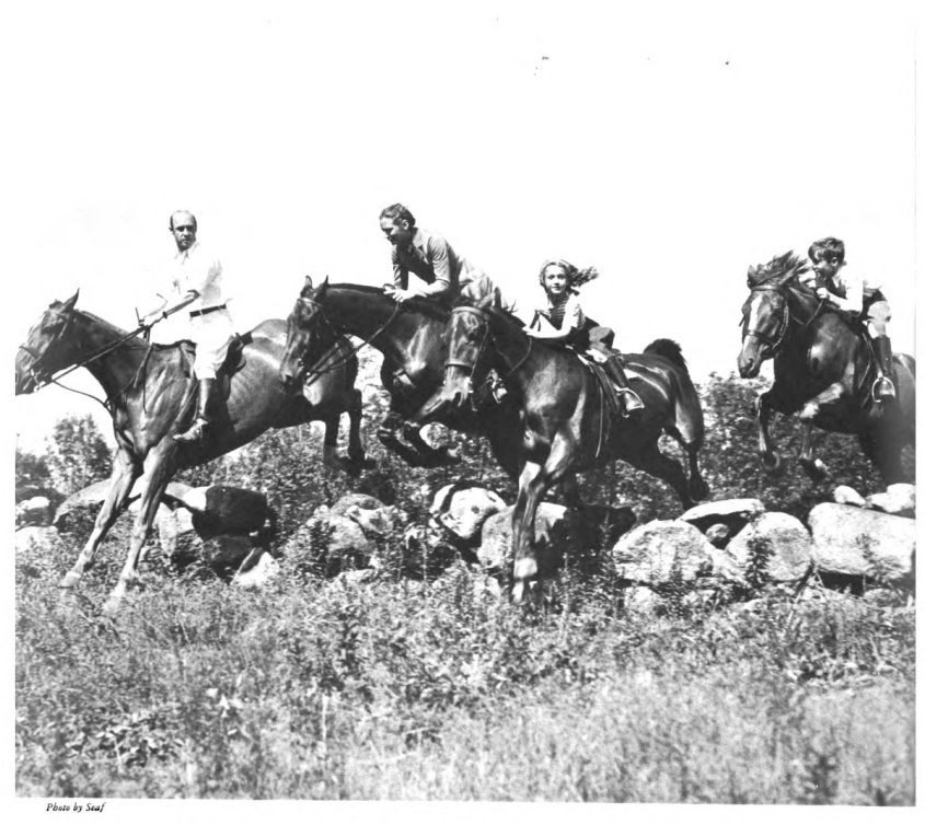 Family of Margaret Cabell Self, riding horses in the 1930s. Frontispiece